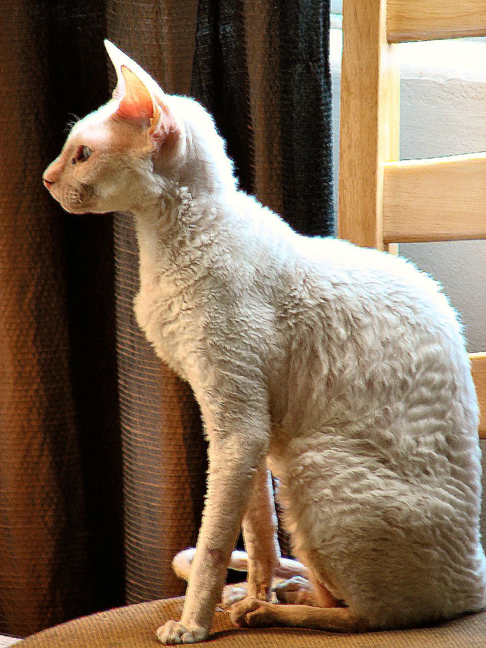 White Cornish Rex, pet quality